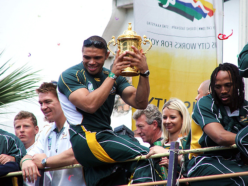 South Africa Rugby World Cup 2007 Winners in Parade in South Africa on a bus